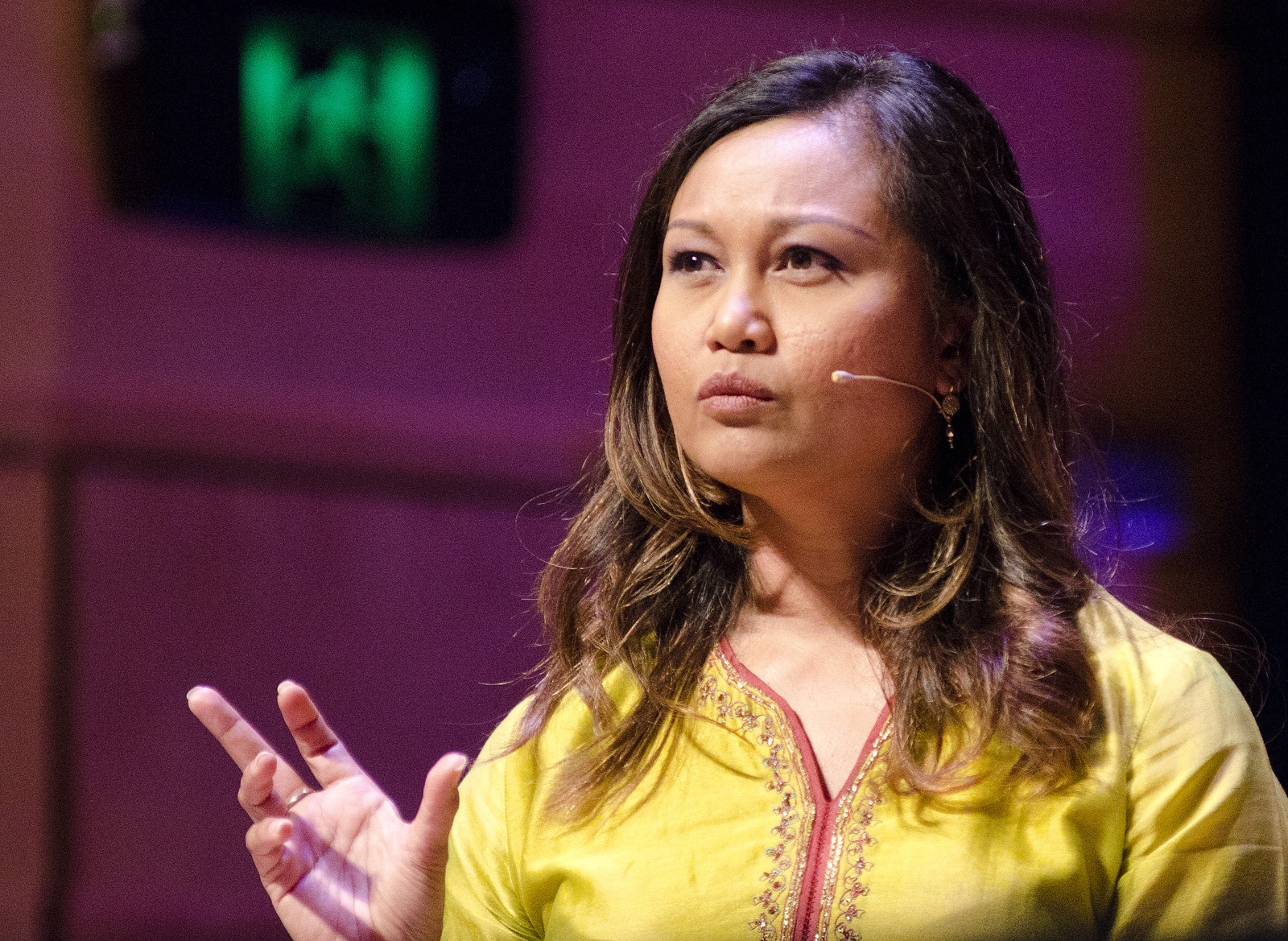 Fauziah Ibrahim speaking at the Australian Skeptics National Convention 2017. Fauziah was on a panel: "The Trend is Mightier than the Pen: Defining Journalism Today" 2:45pm Saturday 18 November 2017. Other panel members, Kathy Marks and Marcus Strom.